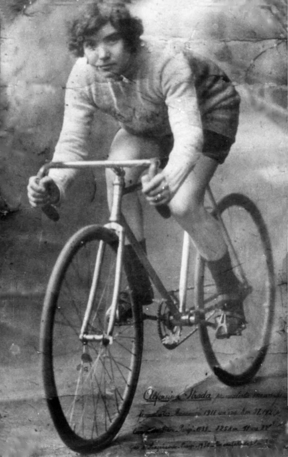 The Italian cyclist Alfonsina Morini Strada, the first woman to ride in the Giro d'Italia in 1924